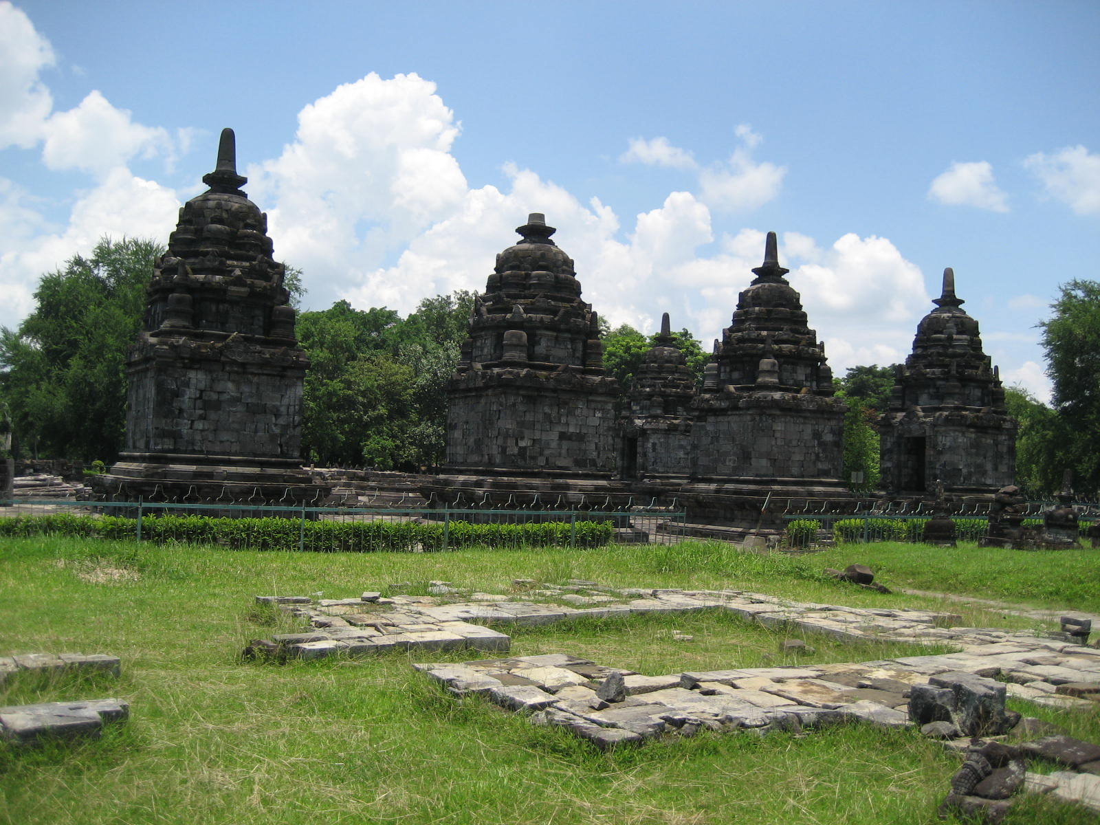 Candi Lumbung (Buddhist temple) in central Java